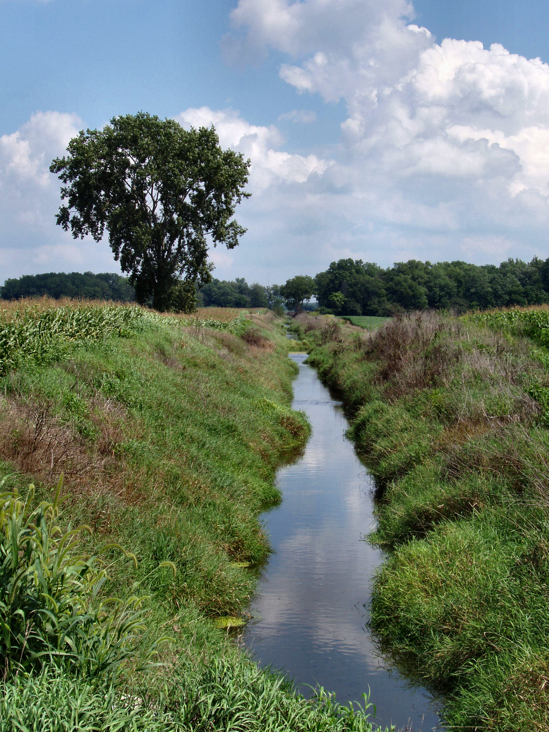 Yellow River in Marshall County, Indiana. Such small rivers are commonly referred to as creeks.